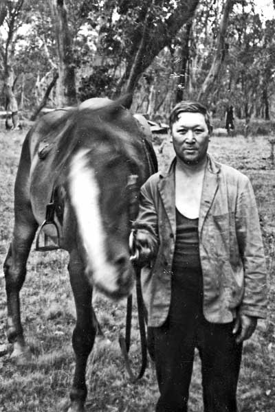 Thomas William (Bill) Ah Chow at Nunniong